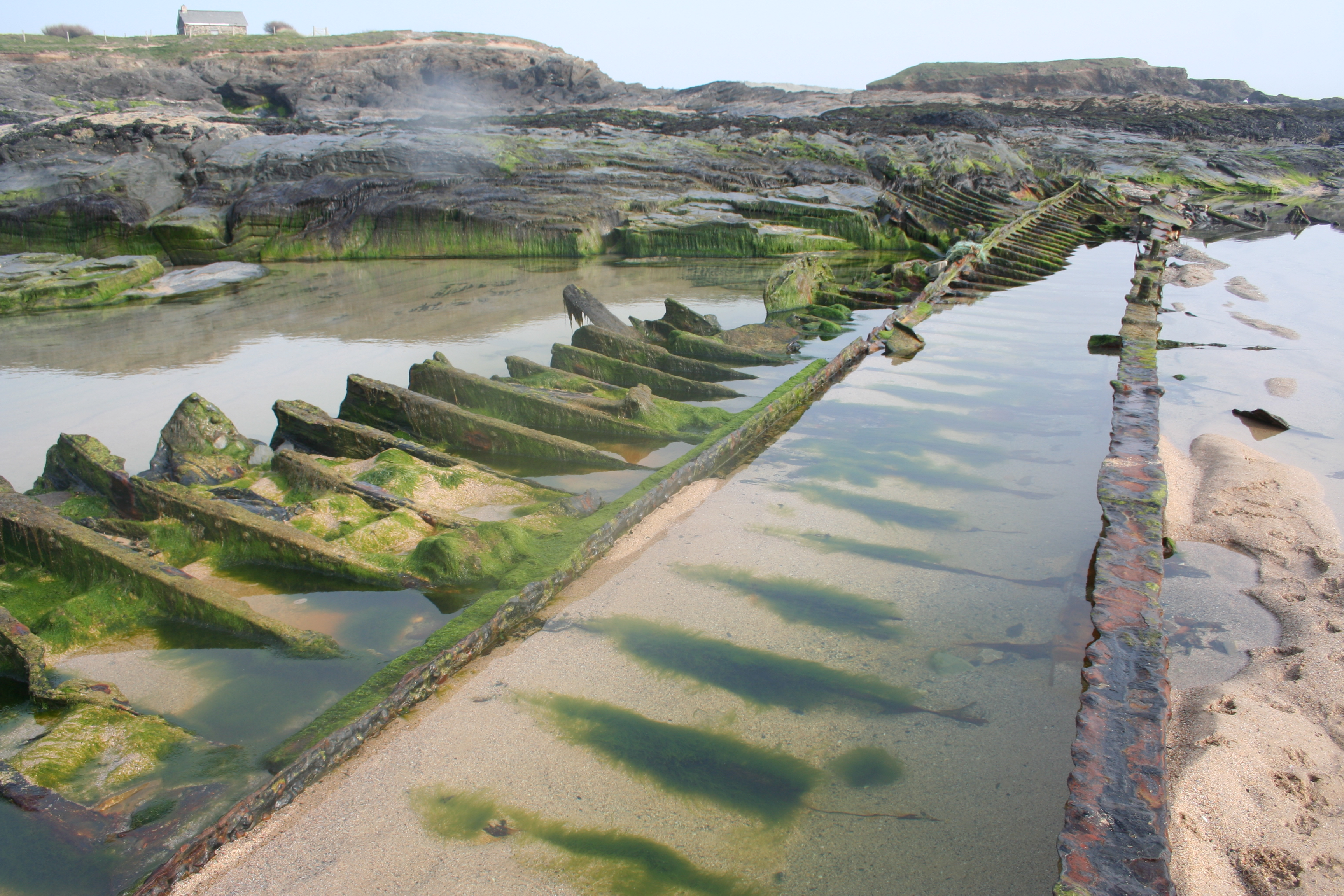 Wreck Carl of Hamburg